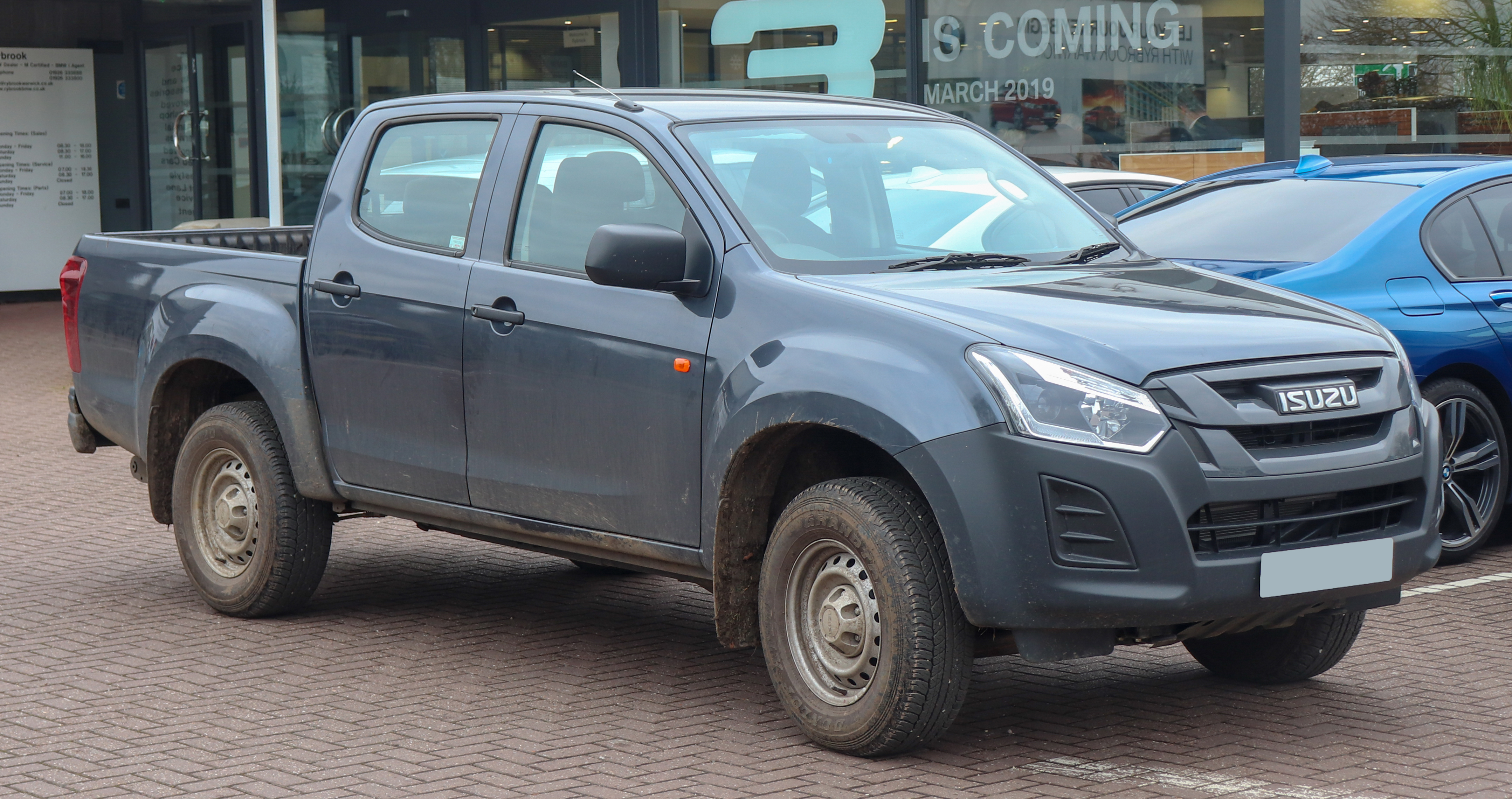 2018 Isuzu D-Max 1.9 Front Taken in Leamington Spa